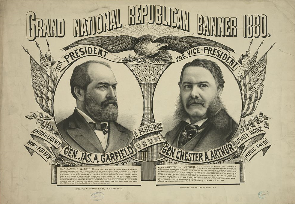 Grand national Republican banner 1880.